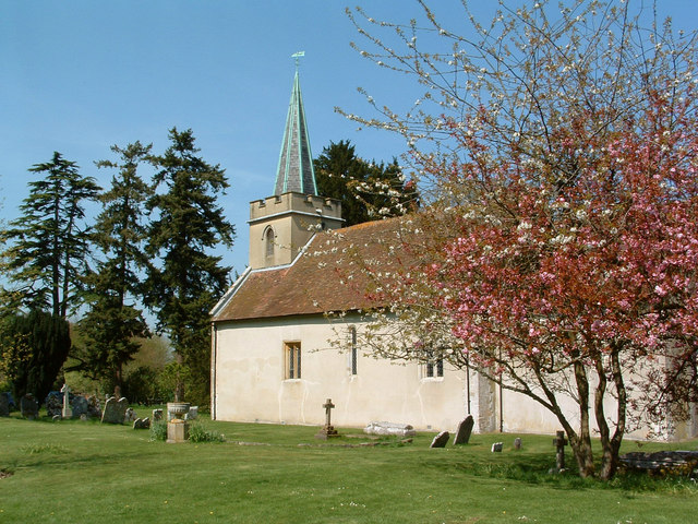 Steventon Church